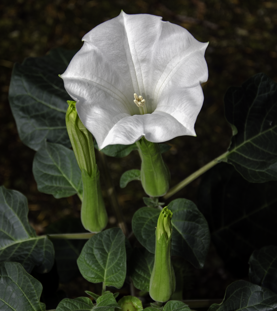 Species: Brugmansia metel syn. Datura metel 1.5 m high; flower diameter: 9 cm; flower length: 20 cm Distribution: Southern China This species is not hardy.